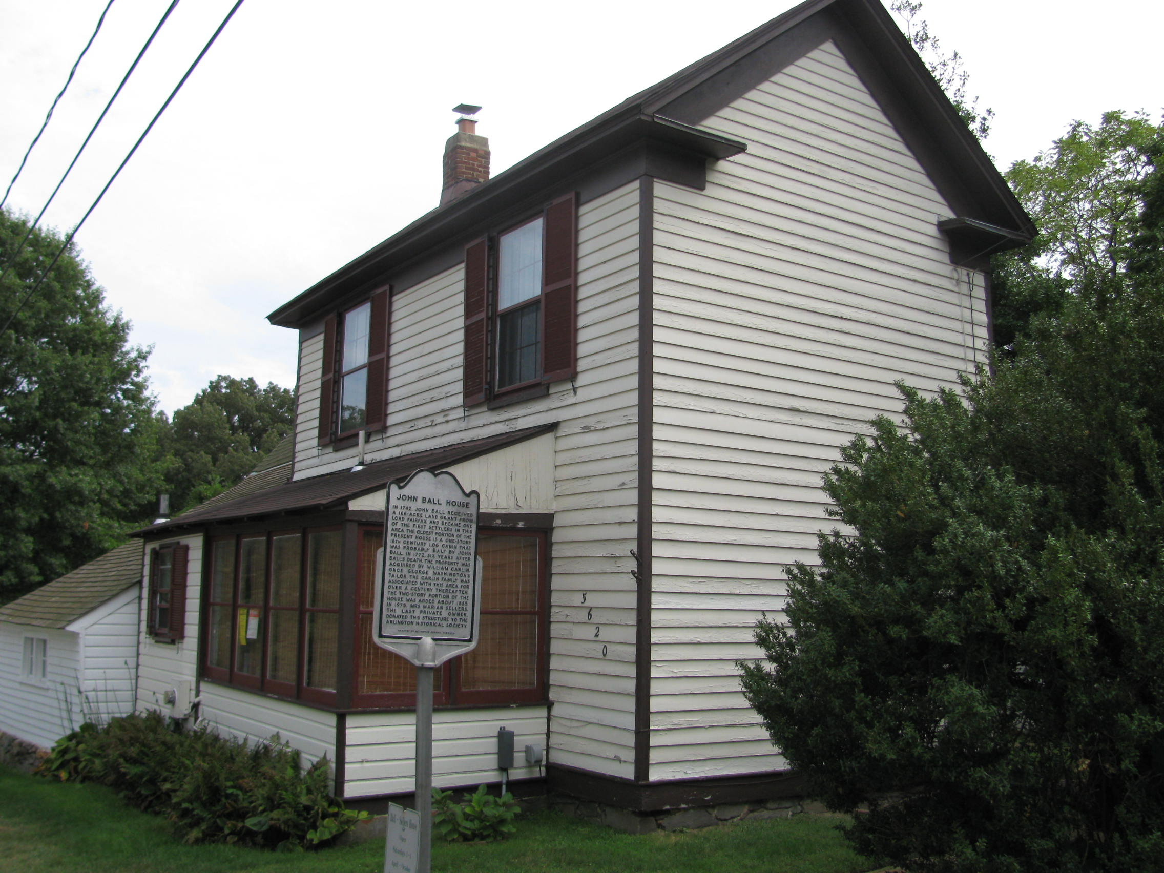 Ball-Sellers House